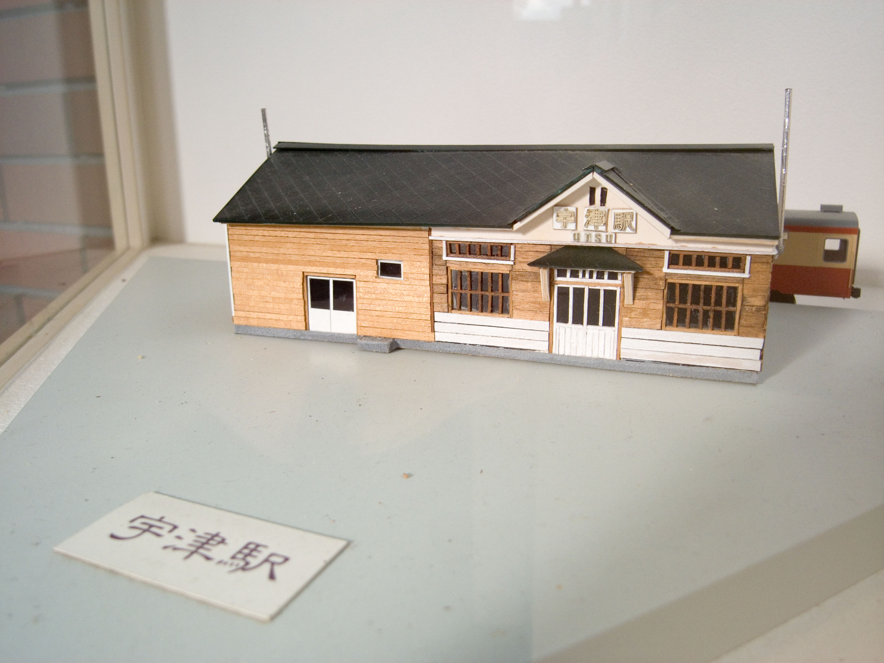 Miniature of Utsu station, Okoppe, Hokkaido, Japan